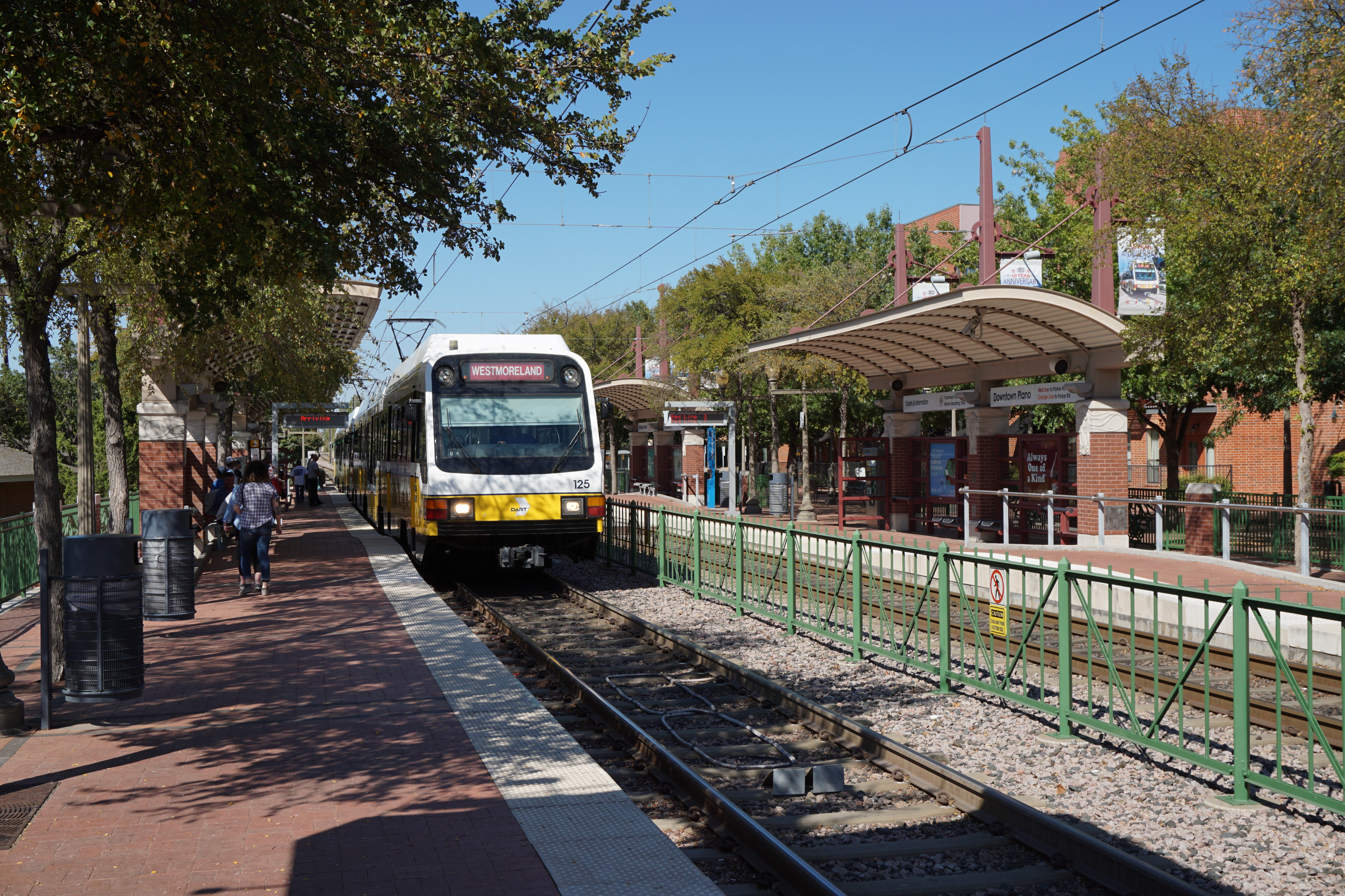 A DART Light Rail Red Line train at Downtown Plano Station in Plano, Texas (United States).